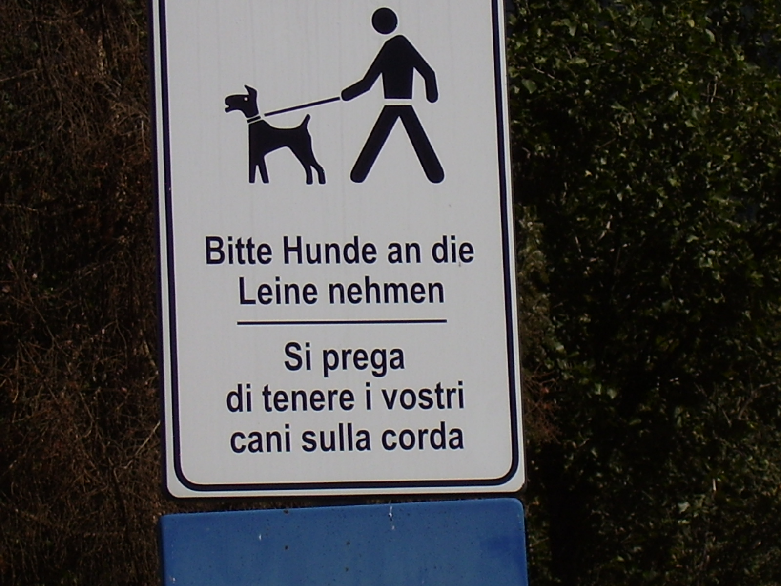 A bilingual sign in South Tyrol (Italy) "keep dogs on the leash" (in German)/ "keep dogs in suspense" (in Italian)